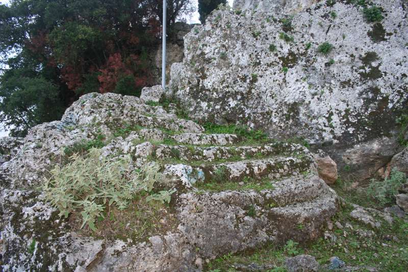 Stairs curved on the rock that connect the two levels of the structure